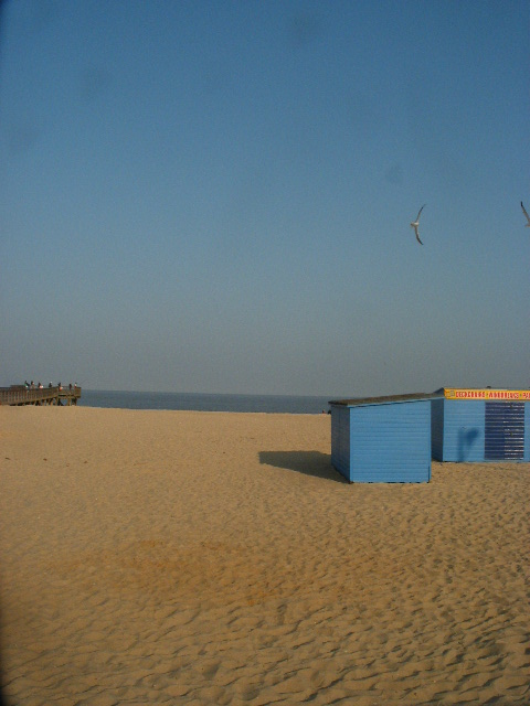 Great Yarmouth beach near the Winter Gardens